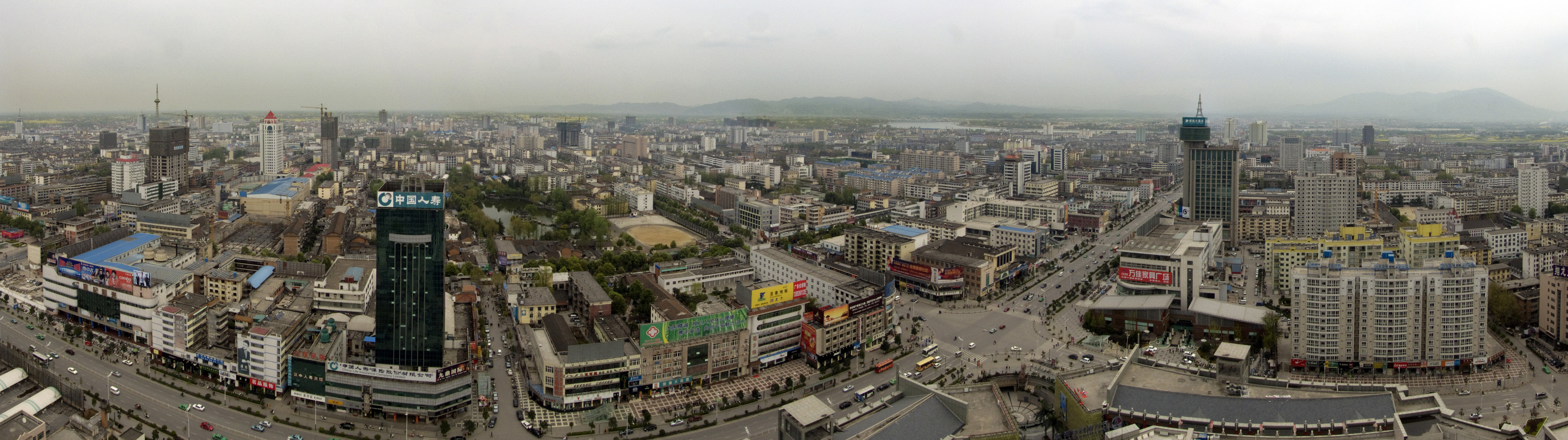 The Southeast panorama of Hanzhong ,Shannxi,China. 中文（中国大陆）: 俯瞰汉中东南区域。陕西汉中